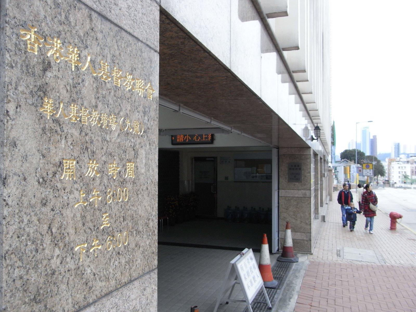 九龍城聯合道香港華人基督教聯會zh:華人基督教墳場, 又名zh:耶穌教墳場